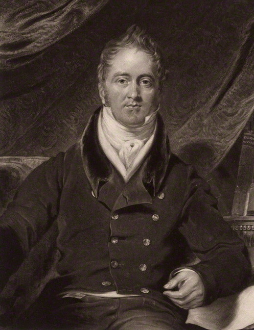 Possibly John Samuel Murray (1778– 27 June 1843) by unknown artist, early 19th century, mezzotint, 13 5/8 in. x 10 3/8 in. (346 mm x 265 mm) paper size. National portrait Gallery, London)